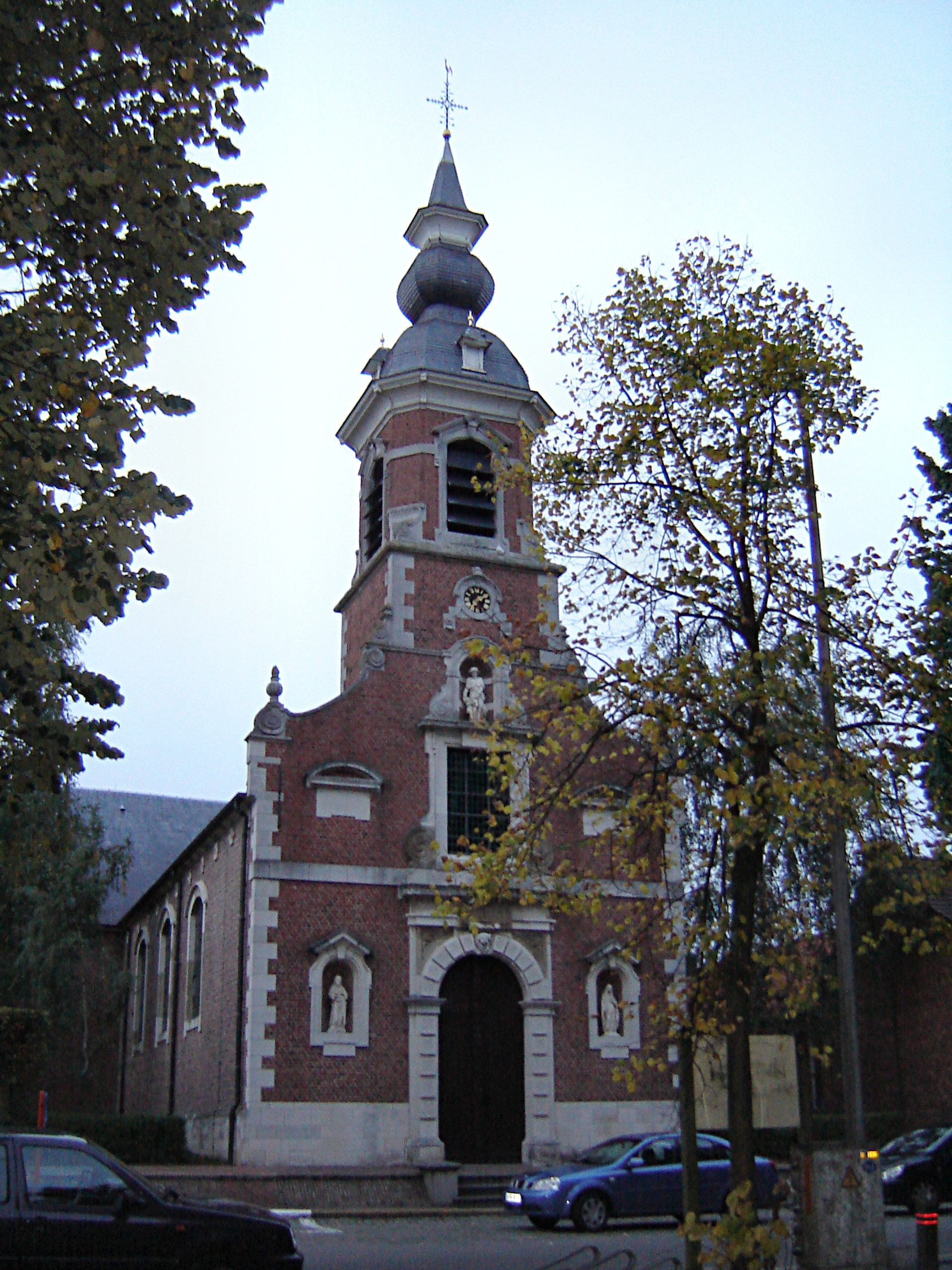 Church of Saint Roch in Sombeke. Sombeke, Waasmunster, East Flanders, Belgium